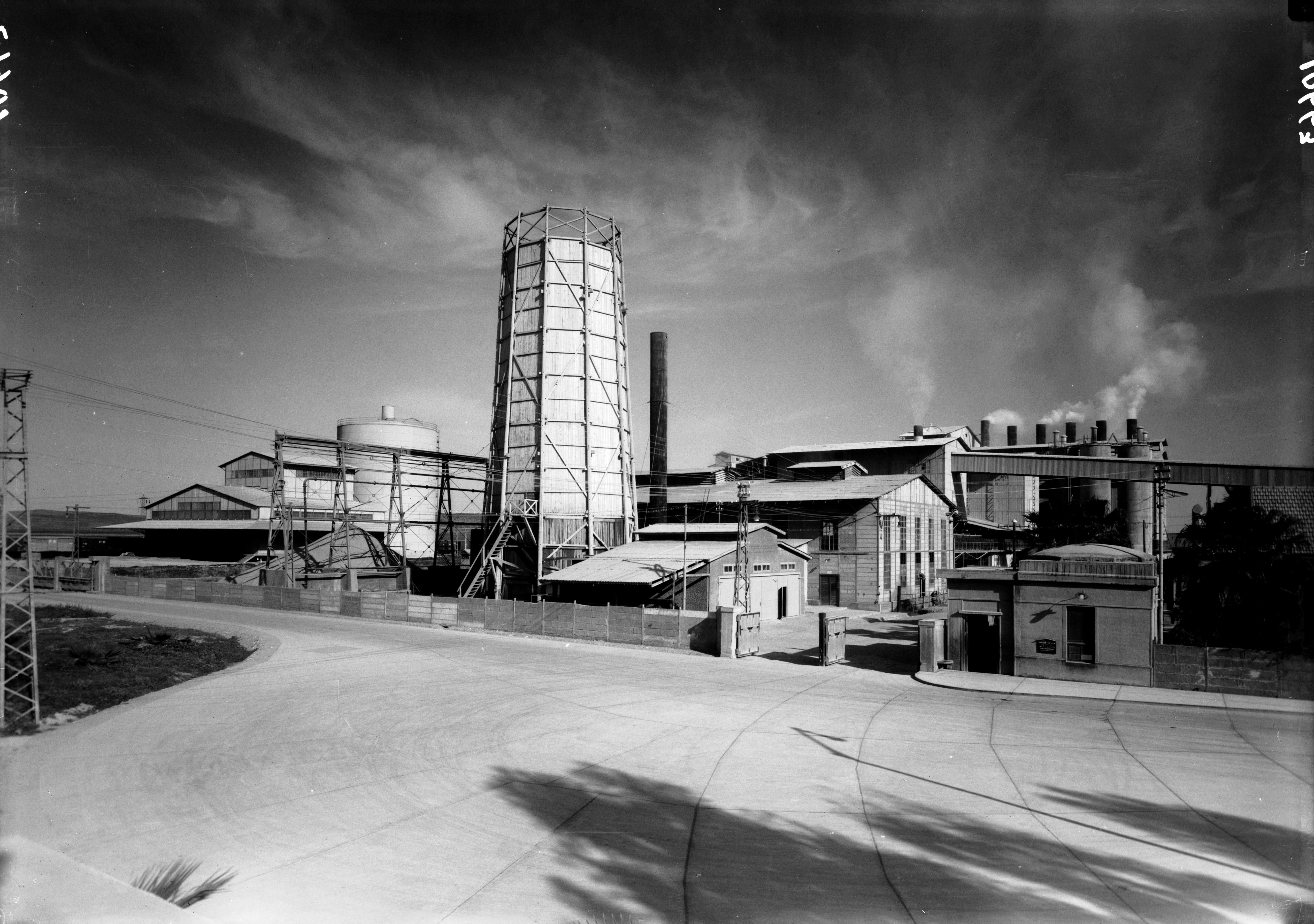 Jewish factories in Palestine on Plain of Sharon & along the coast to Haifa. Haifa. The "Neshur" Cement Works. Gen[eral] view of the works from the west.